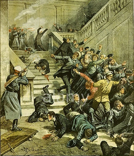 Massacre at Tiflis City Council building, October 15, 1905. An episode of the Russian Revolution. Painting by the Italian illustrator Achille Beltrame. De Agostini Picture Library